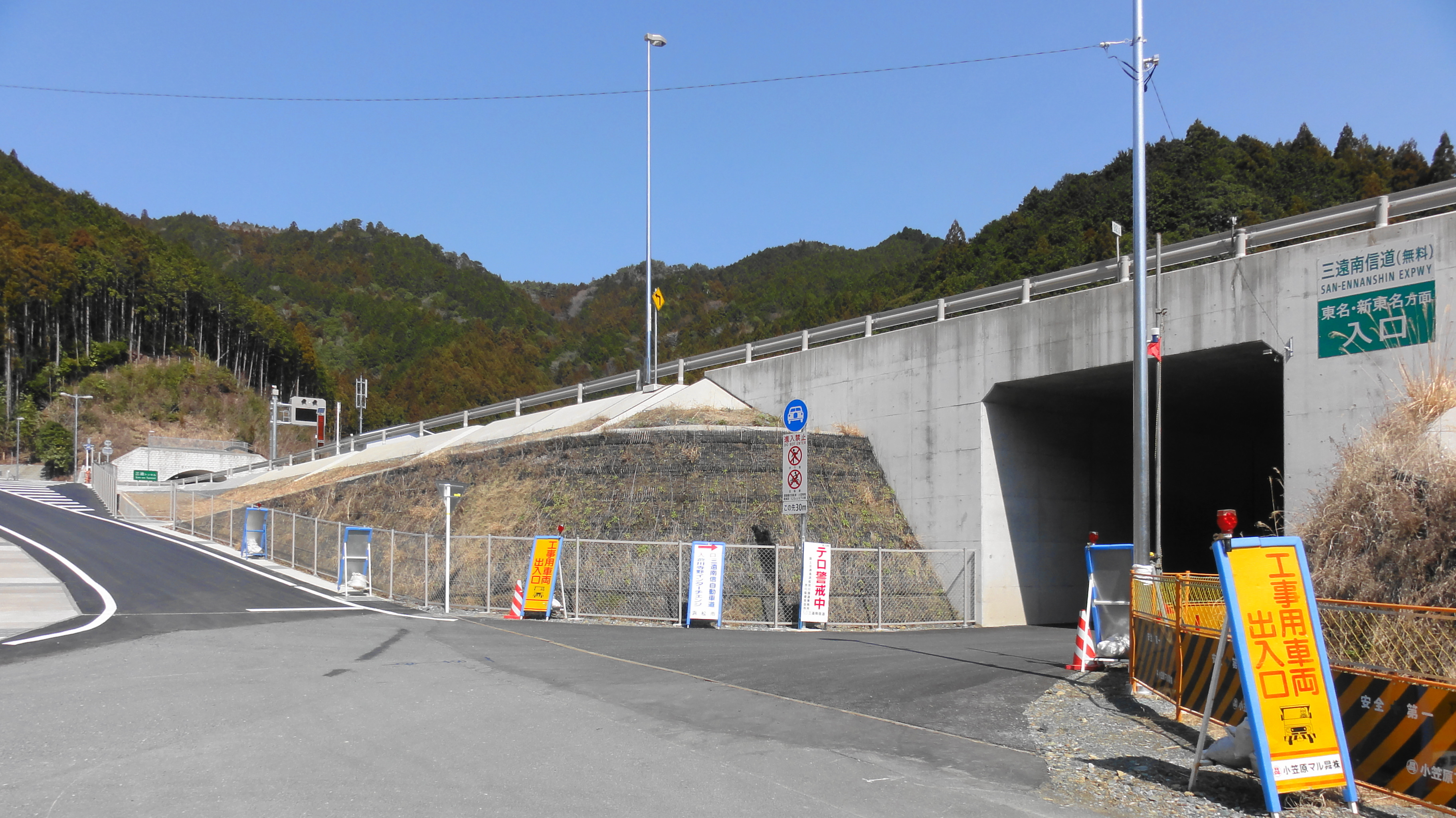 Shibukawa-Terano InterChange,Shizuoka prefecture, Japan